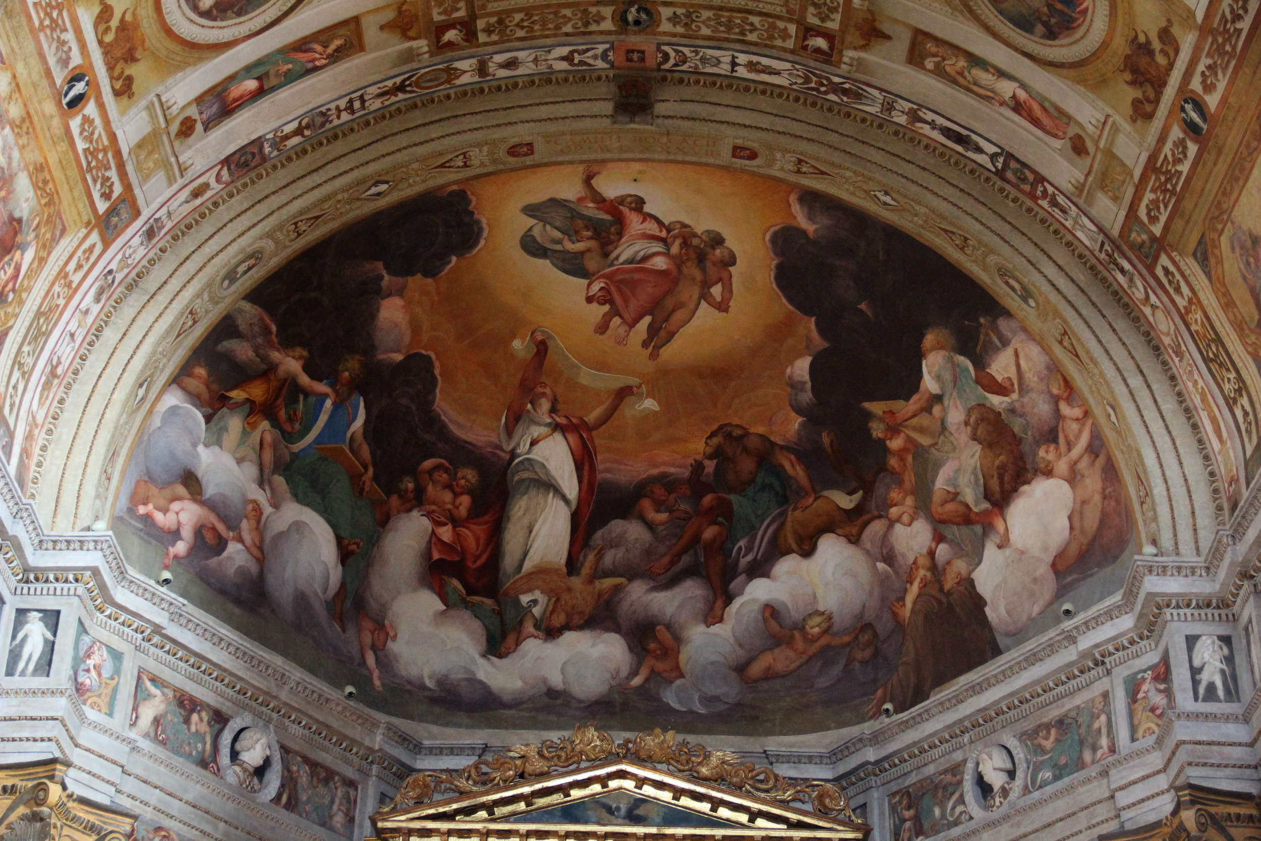 Frescoed vault, San Sigismondo, Cremona, Italy Church of Saint Sigismondo Native nameChiesa di San SigismondoLocationCremona, Lombardy, ItalyCoordinates45° 07′ 33″ N, 10° 03′ 15″ E Authority control : Q3672044